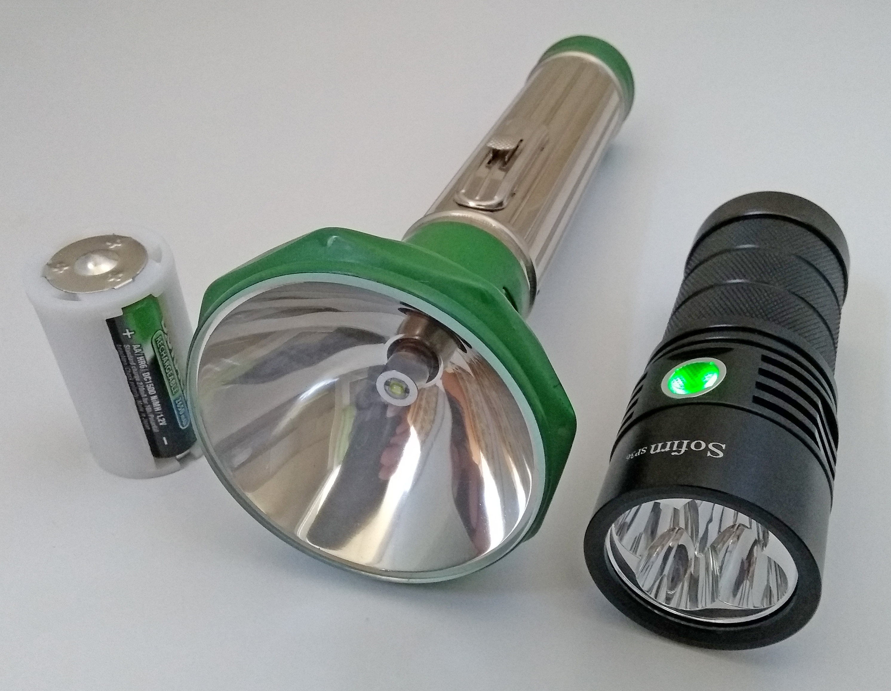 Left to right: A 3x AA to D parallel battery converter with rechargable NiMH AA-size batteries inserted. MY DAY vintage flashlight made in Czechoslovakia. It uses three 1.5 V D-size batteries as power supply and was converted from an incandescent light bulb to a much more powerful white-light-emitting diode (LED) that produces about 270 lm of luminous flux. The user can adjust the relative position of the light source and reflector, giving a variable-focus effect from a wide floodlight to a narrow beam. A mechanical side-mounted slide switch provides control allows the light to be off or left on for an extended time. The slide switch also features a position for intermittent use or signalling by pressing down on it. Sofirn SP36 flashlight made in China. It features a 5 V 2 A USB-C charging port to load three a 3.7 V 18650-type lithium-ion batteries. If necessary, the flashlight can also be powered with one or two batteries. The quadriled torch has four CREE XPL2 5350 – 5700K LEDs that can be ramped by the electronic control button to produce from 0.5 lm up to 6,000 lm of luminous flux. The user interface is fully programmable and can be customized using the backlit electronic control button on the side.